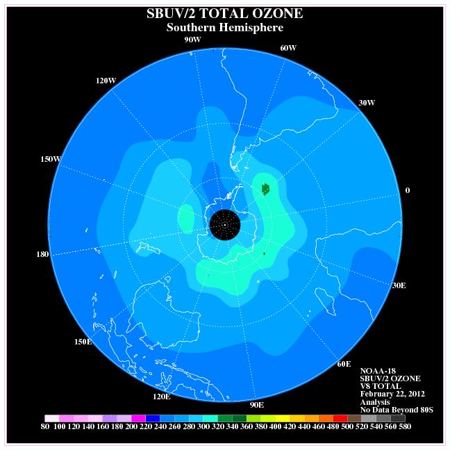 This image shows ozone concentration in the Southern Hemisphere on February 22, 2012